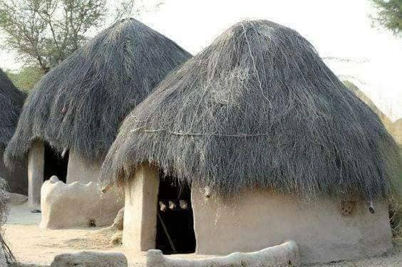 Cholistan is widely spread desert in Pakistan. This are is still living in early century of human civilization. Here people dont have most facilities of life including drinking water electricity and gasoline etc. They live in clay mud made houses those are covered by grass. Climate of this are is also very hot and humid.